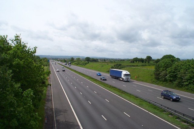 M5 motorway near Creech St. Michael. Looking southwest towards Junction 25,about one mile away.